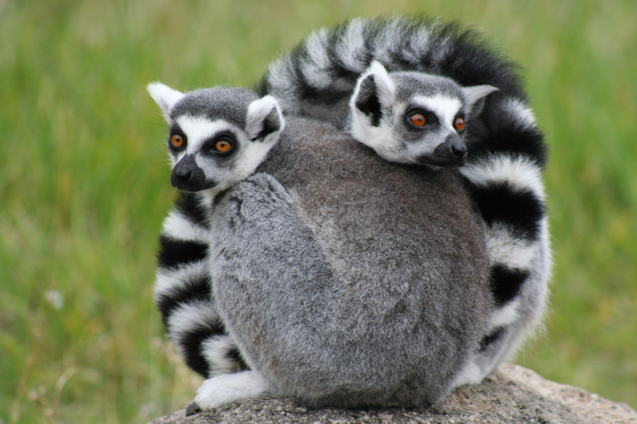 Ring-Tailed Lemurs at the Oakland Zoo.